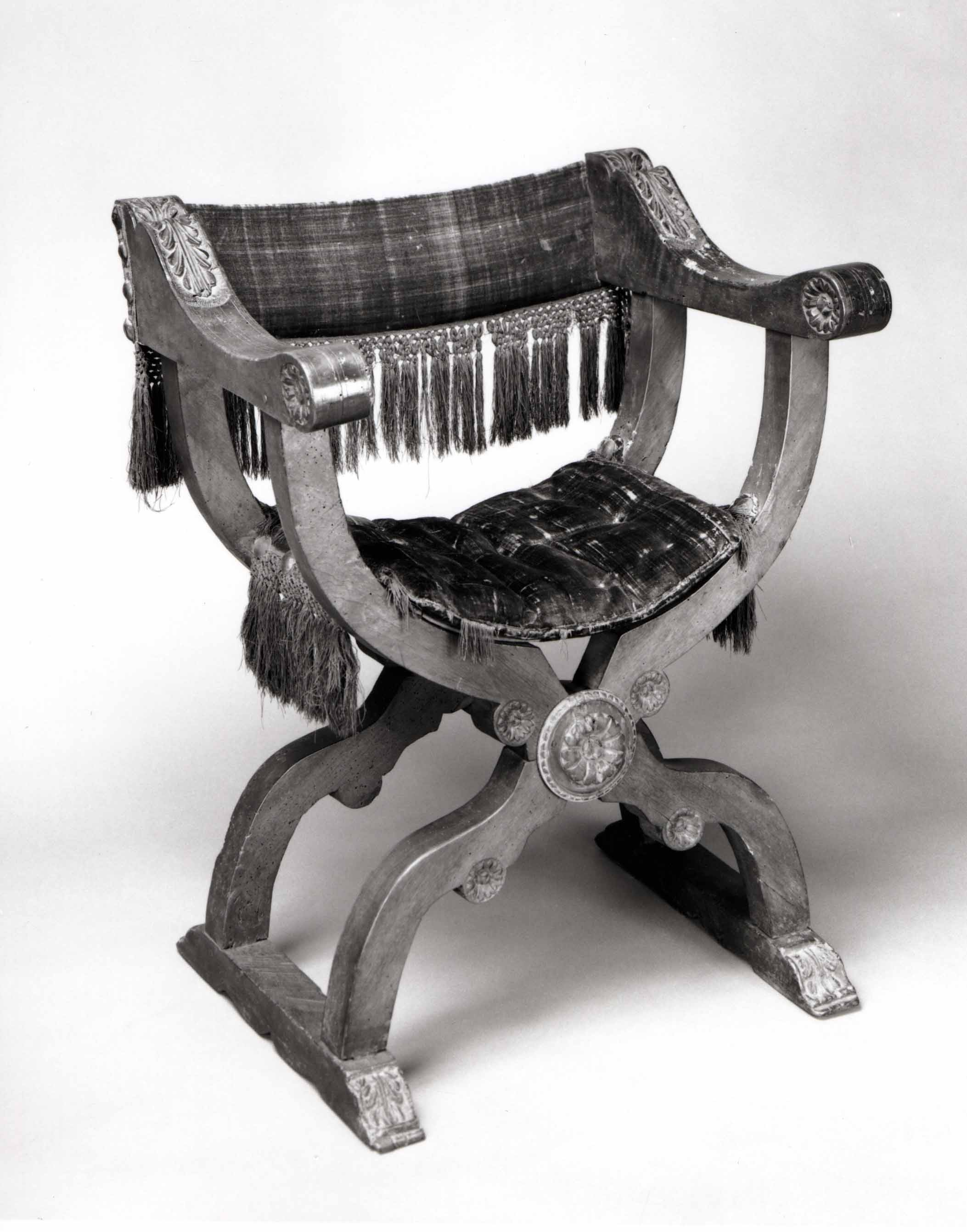 Italian (?); Armchair; Textiles-Velvets